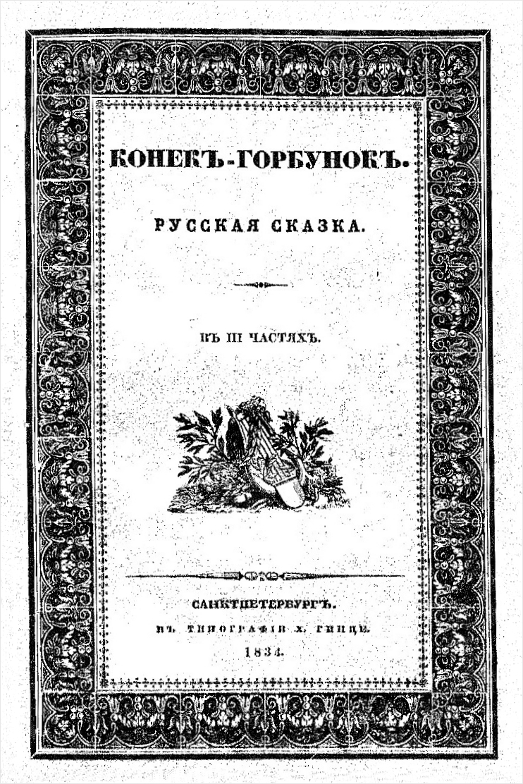 Cover of the first edition of the tale in verse «The Little Humpbacked Horse» of Pyotr P. Yershov. Saint Petersburg, 1834. Published by H. Hinze